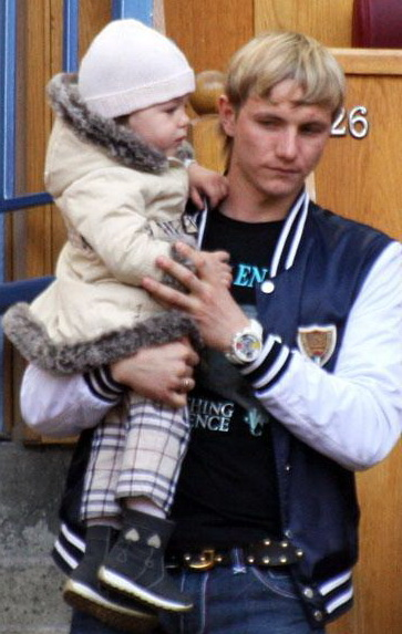 Roman Pavlyuchenko